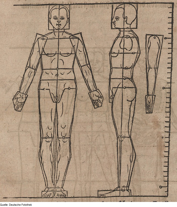 Original image description from the Deutsche FotothekGeometrie & Proportion & Person